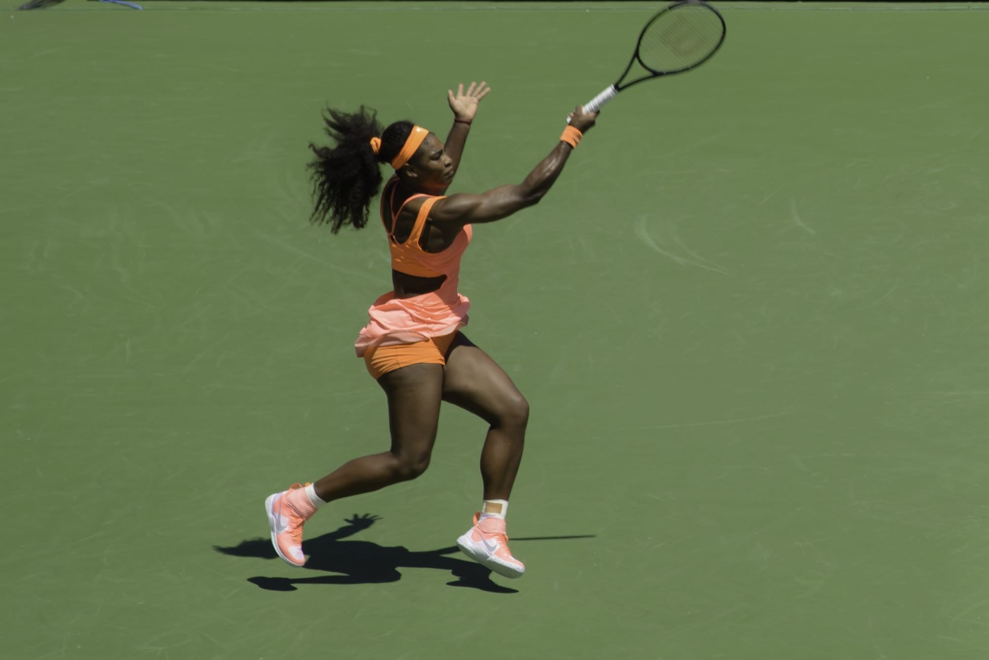 Serena Williams won her eighth Key Biscayne, Miami Open title while she has not been beaten in 2015, this is her 21-match winning in a row! ...only three women in the history of tennis had won an event eight times or more: Chris Evert, Martina Navratilova and Steffi Graf, which is about as esteemed list as you can get. After a dominant 6-2, 6-0 over Carla Suarez Navarro in the finals of the Miami Open, Serena Williams can be added to it. Ref: Despite Saturday's hammering, Suarez Navarro can be happy with her week in Miami where she captured some big scalps including that of Serena's elder sister Venus Williams in the quarter finals. Ref: Key Biscayne, Miami, Florida. 5 6 ISO: 100